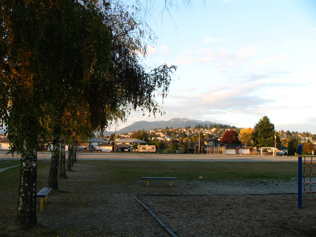 This photo was taken by me, Flying Penguin of Pacific Spirit Photography ( in Burnaby, BC, Canada in 2006